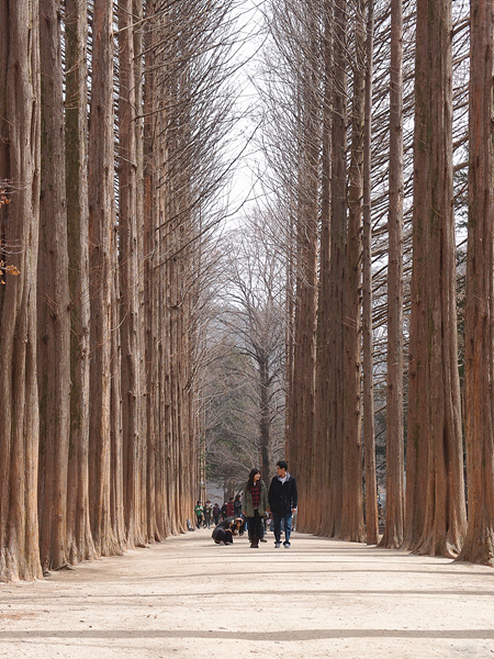 A footpath on Namiseom